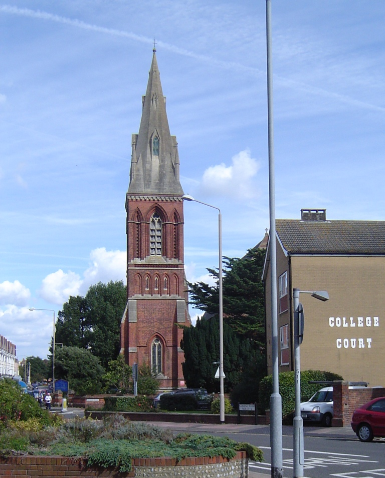 Steeple of St Saviour's parish church, South Street, Eastbourne, East Sussex, seen from the west